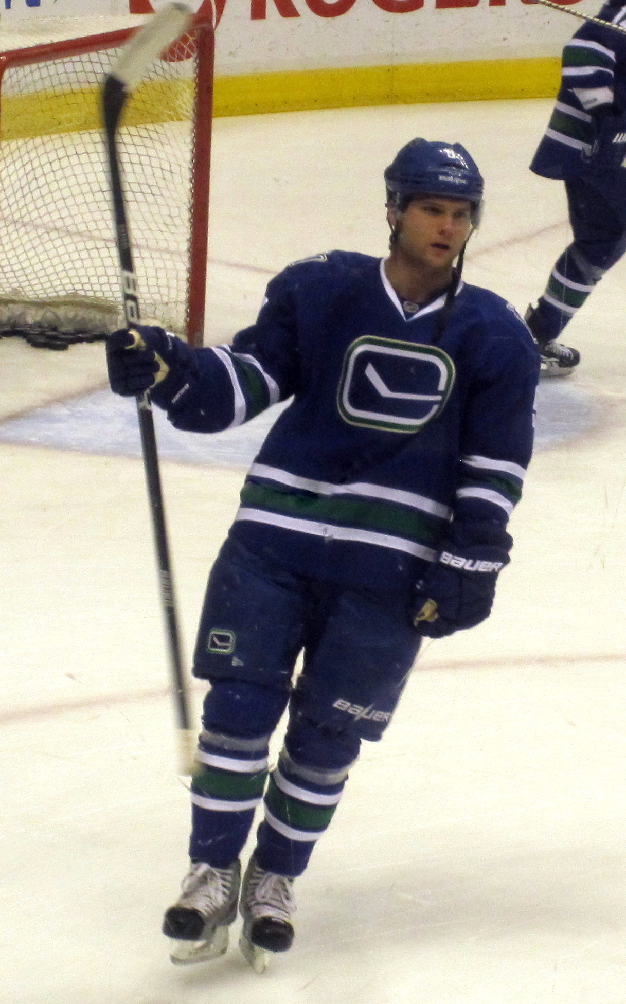 Vancouver Canucks forward Cody Hodgson during a game against the San Jose Sharks on January 2, 2012, in Vancouver, British Columbia.